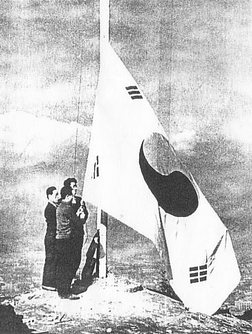 Taegukgi on the Namsan Mountain